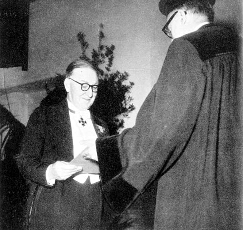 In 1959 ontving John Douglas Cockcroft, Brits natuurkundige en directeur Brits kernwapenprogramma, uit handen van O. Bottema het eredoctoraat van de Technische Hogeschool Delft